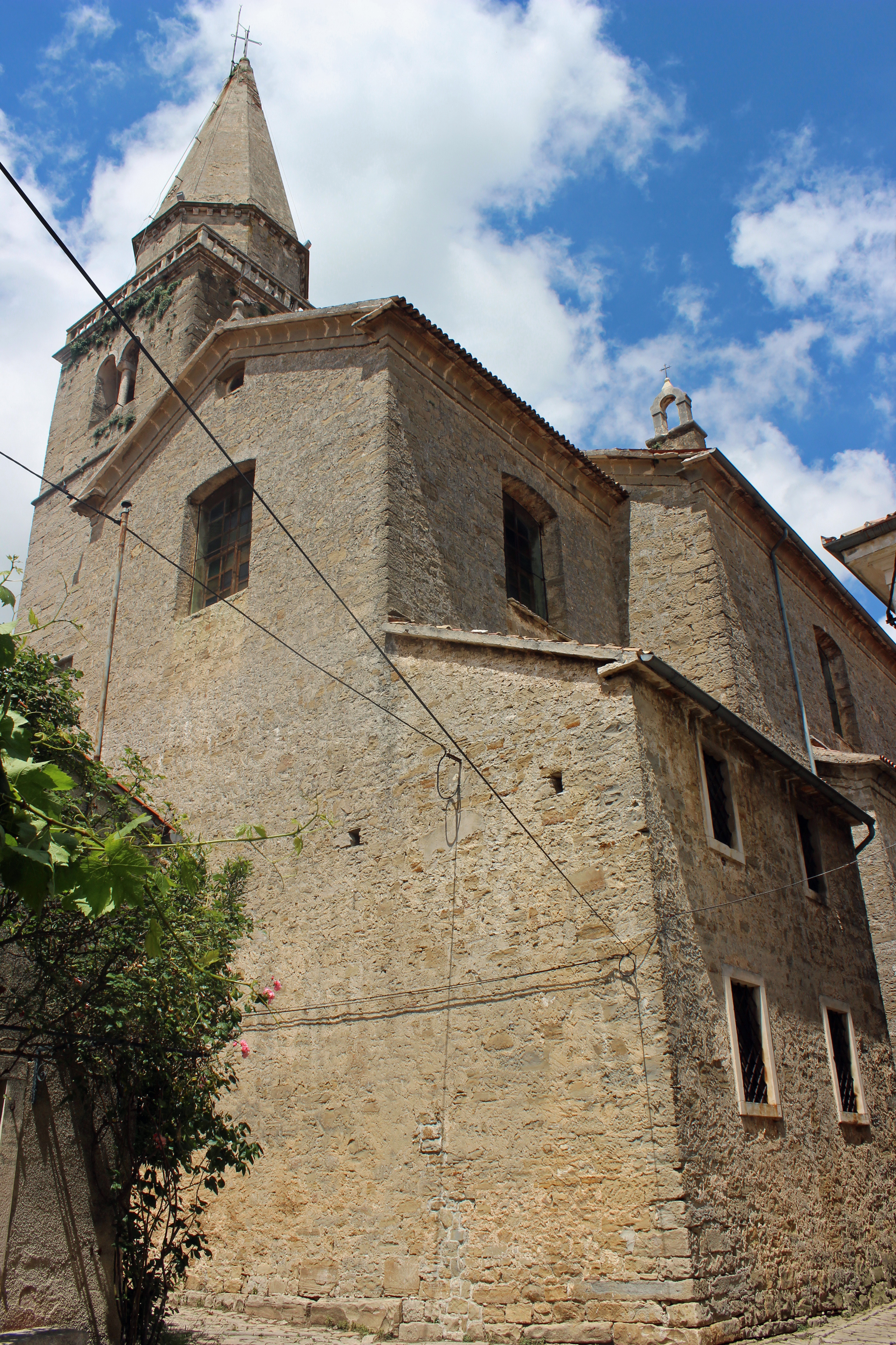 Backside of the Parish Church of St. Vitus, Modestus and Crescentia, with Bell Tower, in Grožnjan, Croatia